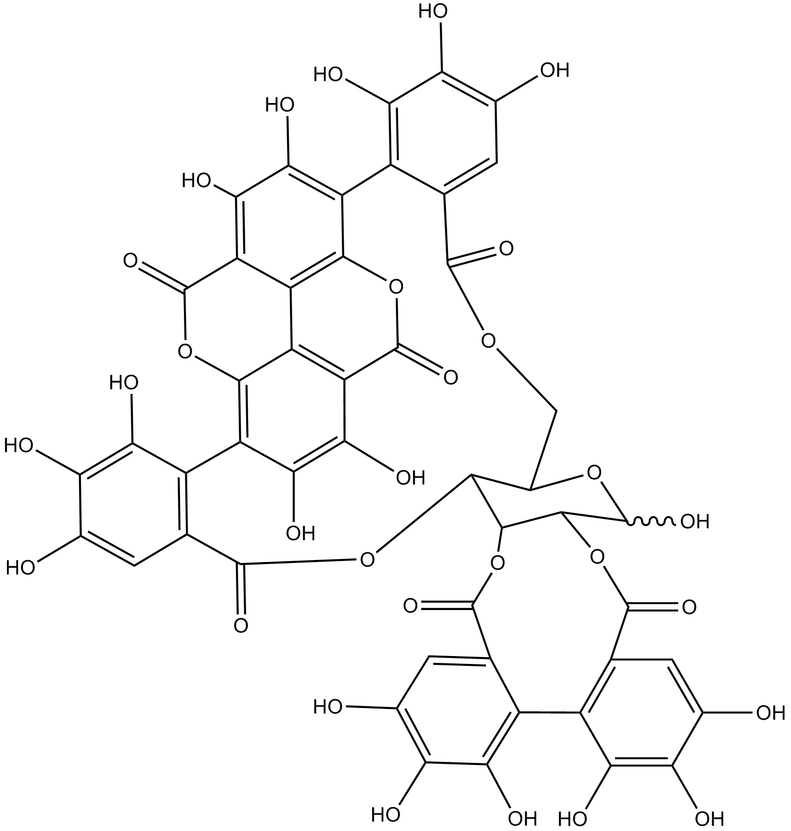 Punicalagin, an ellagitannin originally found in pomegranates